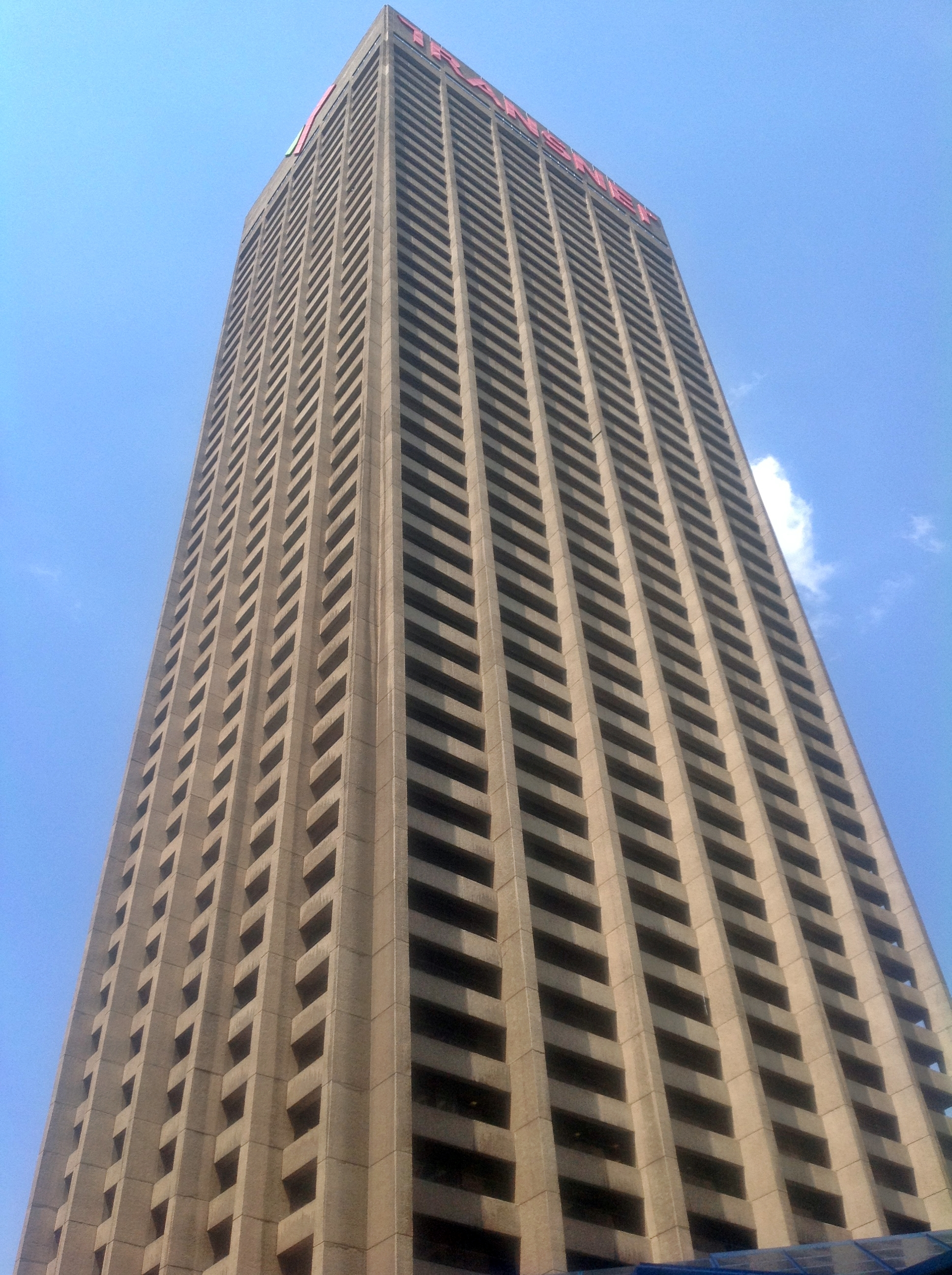 The Carlton Centre is a skyscraper and shopping centre located in downtown Johannesburg, South Africa. At 223 metres (732 ft), it has been the tallest office building in Africa for 39 years. The Carlton Centre has 50 floors. This media shows a South African Protected Site with SAHRA file reference NEW.